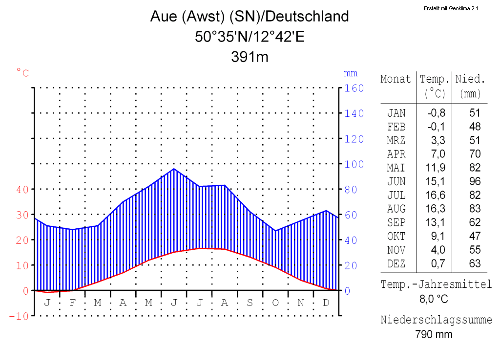 climate chart in the format by Walter and Lieth, metric, °Celsisus and millimeters, made with Geoklima 2.1